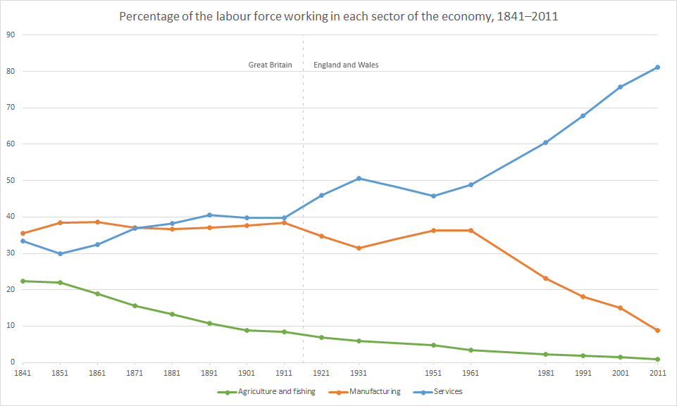 Data from